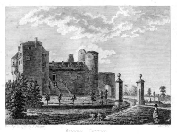 Kilkea (Killea [sic]) Castle